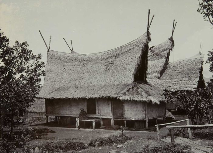 Houses at Papandak